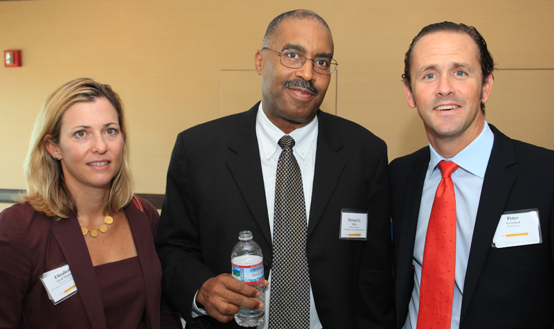 Maryland Venture Fund Authority members Elizabeth Good Mazhari, Michael G. Miller and MFVA Chair/MedImmune President Peter Greenleaf were sworn in on August 31, 2011.